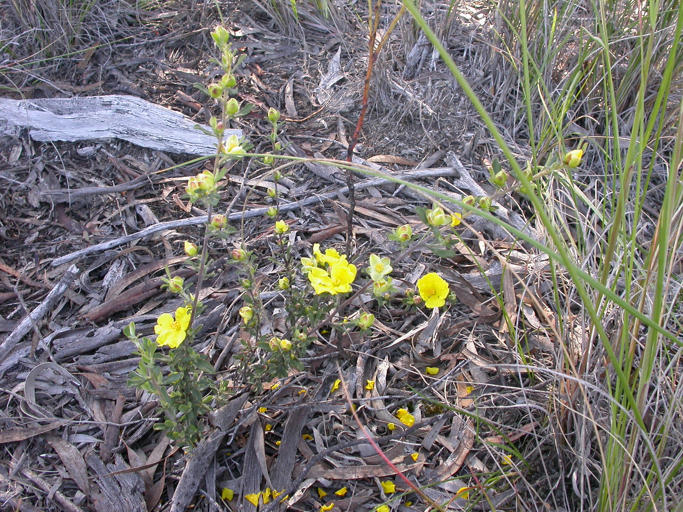 Hibbertia obtusifolia DC., Black Mountain, Canberra, ACT, 26 October 2010